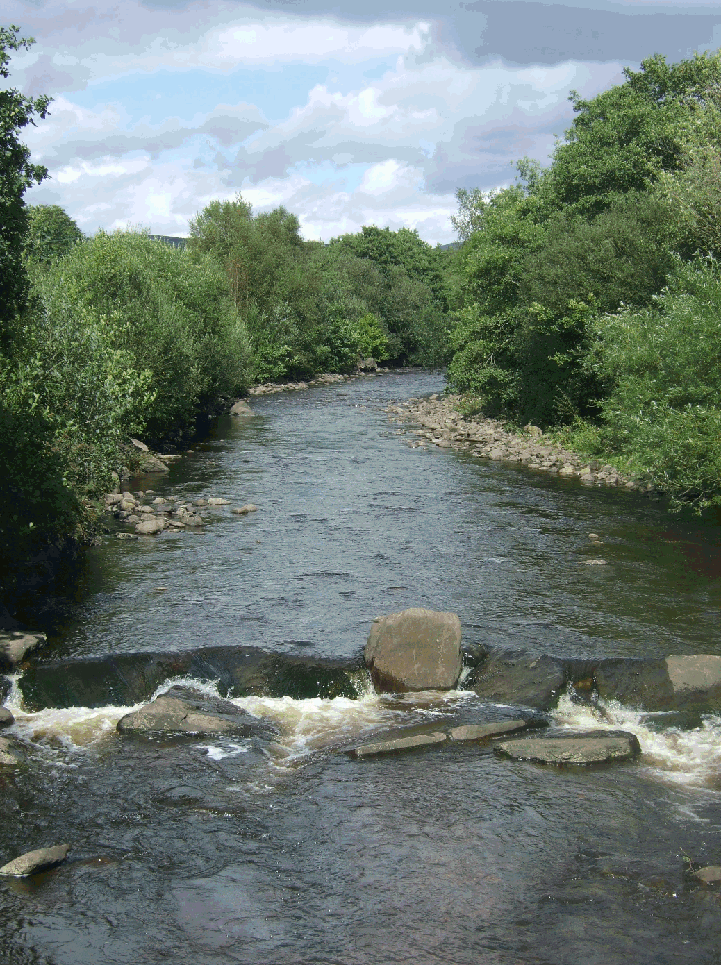 River Amman (Carmarthenshire) between Ammanford and Betws